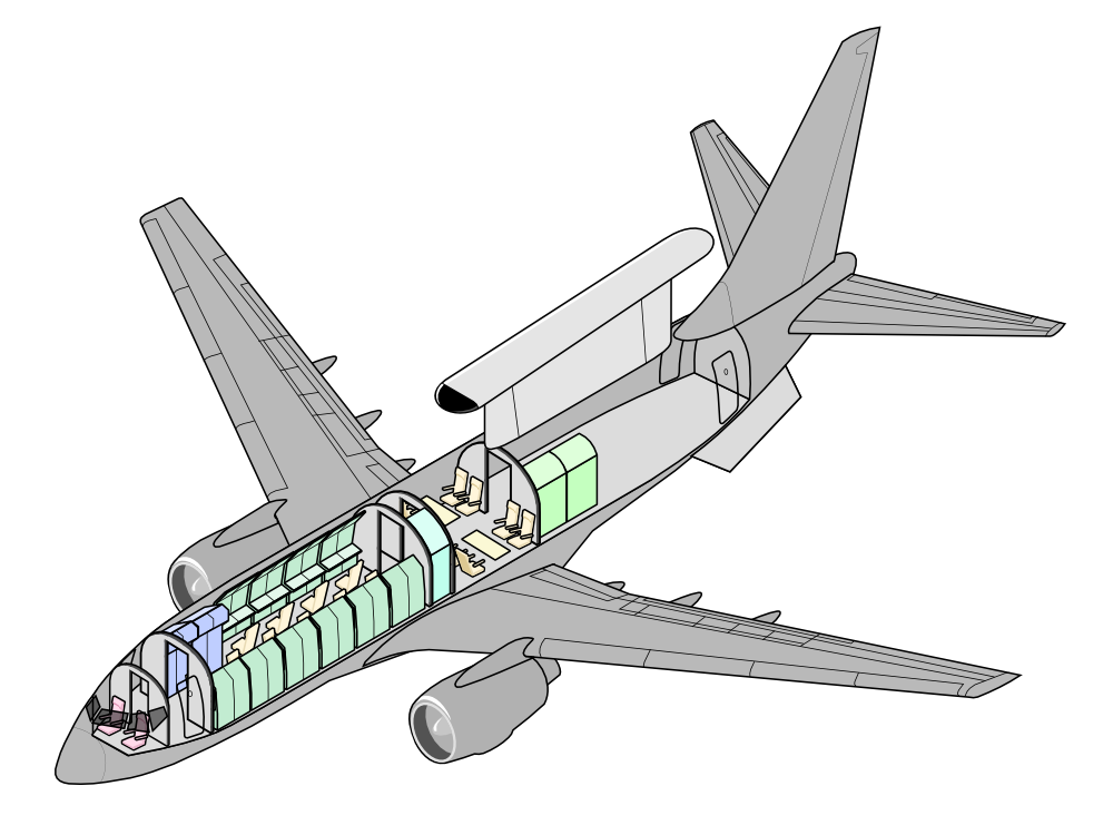 B737 AEW&C "Wedgetail" cut model